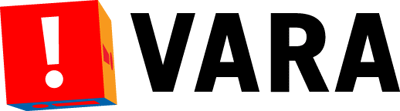 logo of the VARA! broadcasting company in the Netherlands